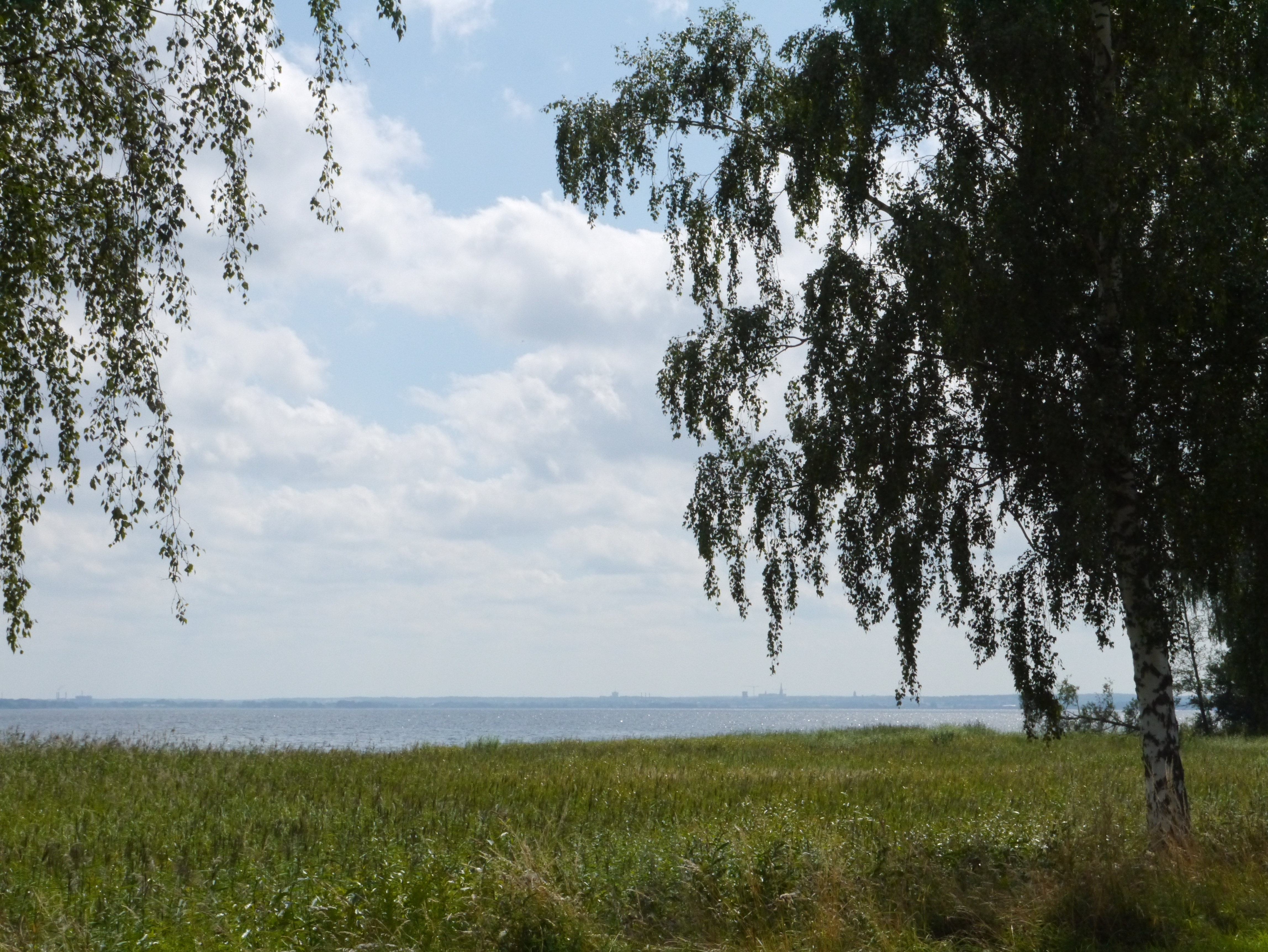 Lake Roxen at silhouette of Linköping in Östergötland